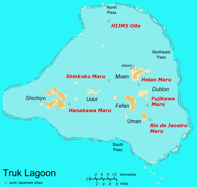 Description: The Truk (Chuuk) Lagoon where the US-Fighters startet Operation Hailstone on 17 Feb. 1944. Several japanese Ships were sunk. *Source: selfmade Map User:W.wolny *Licence: GNU/FDL